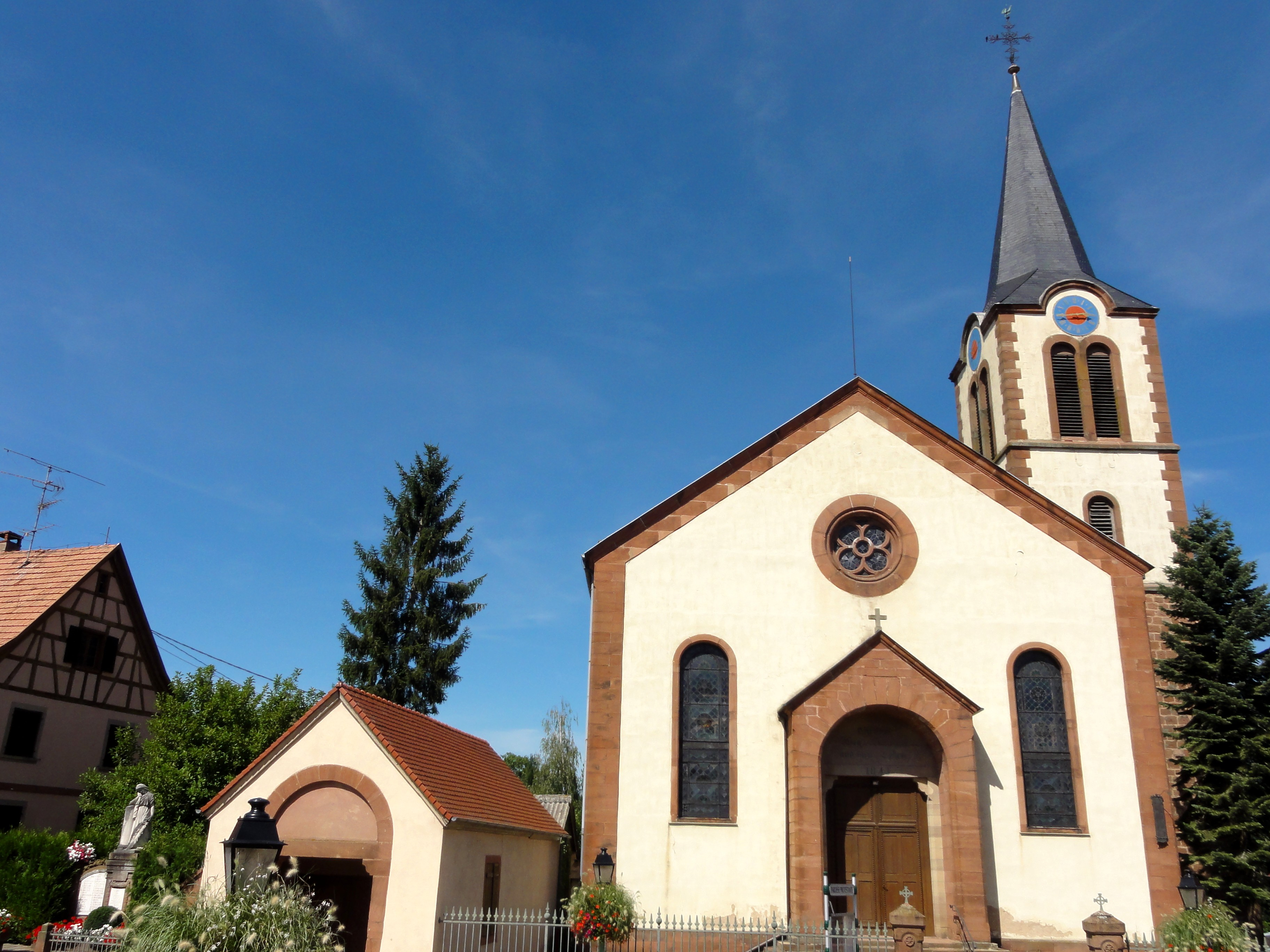 Alsace, Bas-Rhin, Obermodern, Église protestante: It is indexed in the Base Mérimée, a database of architectural heritage maintained by the French Ministry of Culture, under the references PA00135145 and IA67010021 .